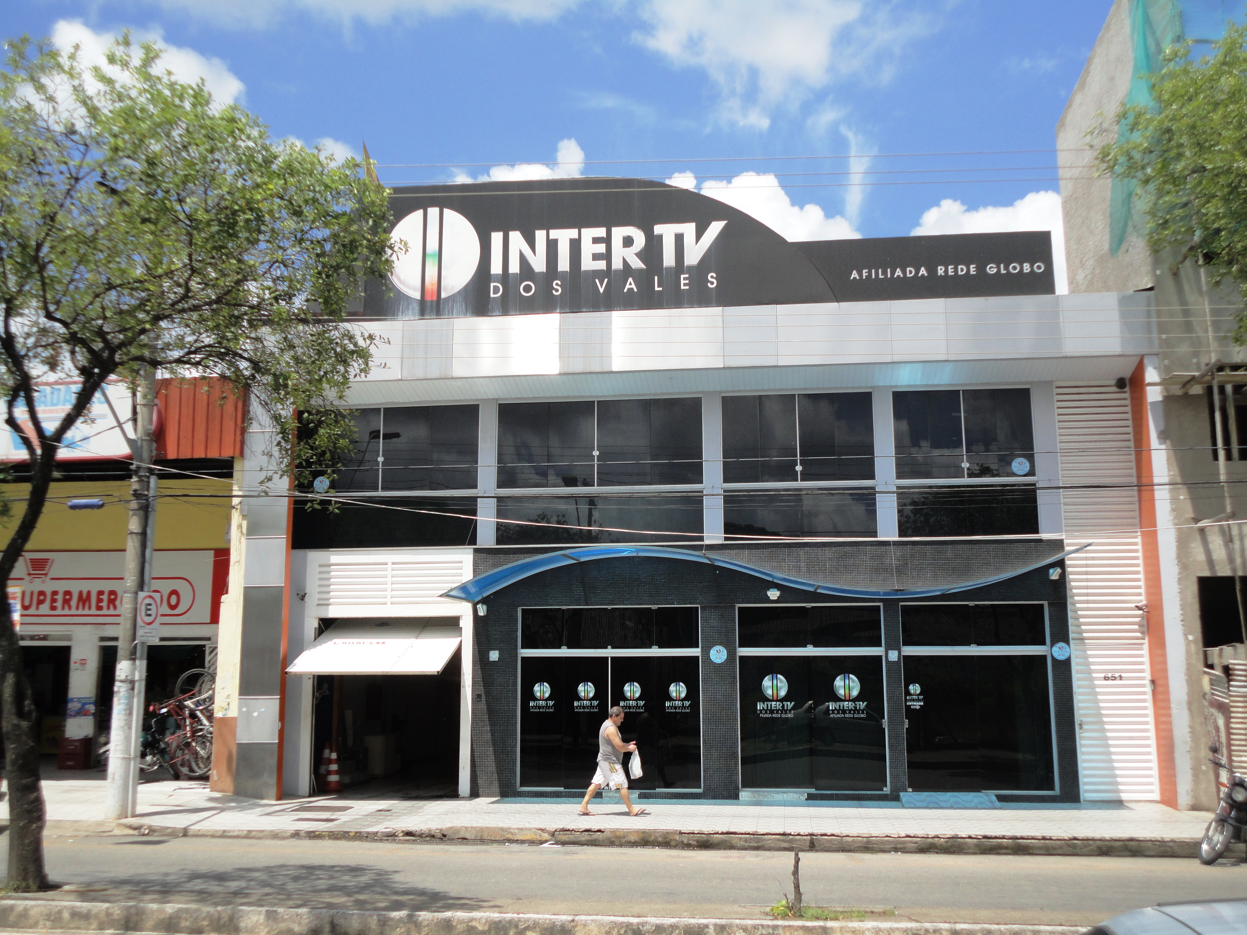 InterTV dos Vales, in Coronel Fabriciano, Minas Gerais, Brazil.